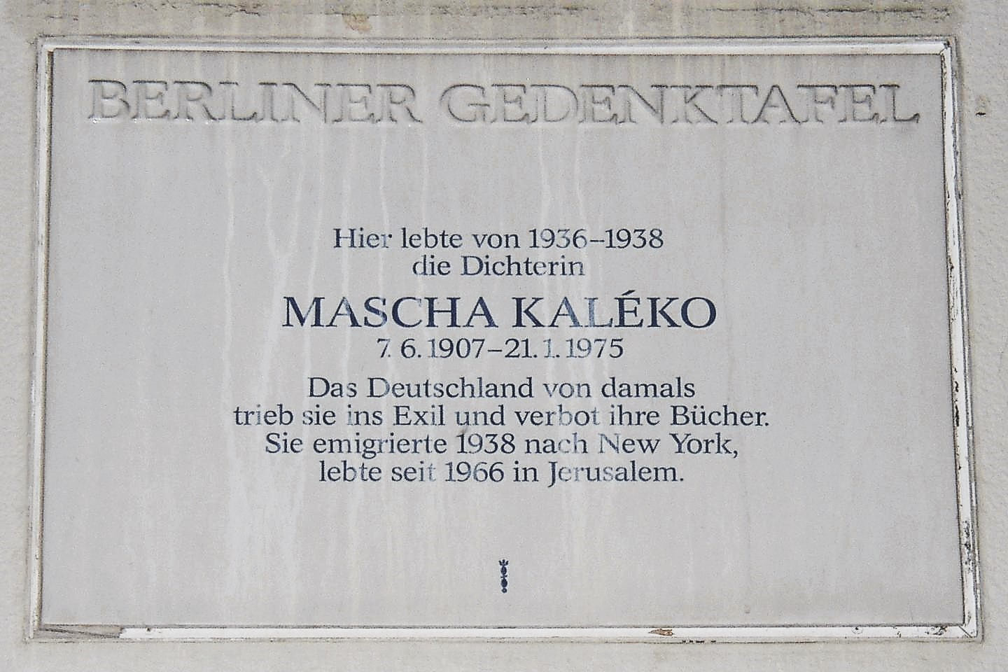 Berlin memorial plaque for Mascha Kaléko in Berlin-Charlottenburg, Germany